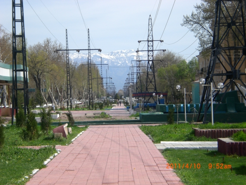 Alley of Chirchik